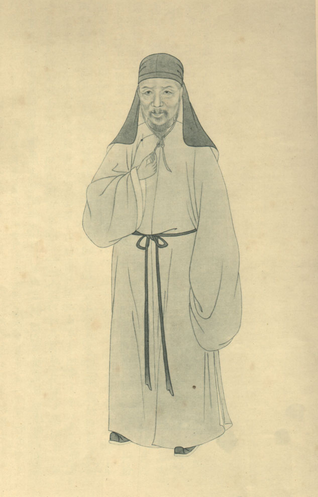 Xu Fang, painter of the Qing Dynasty.